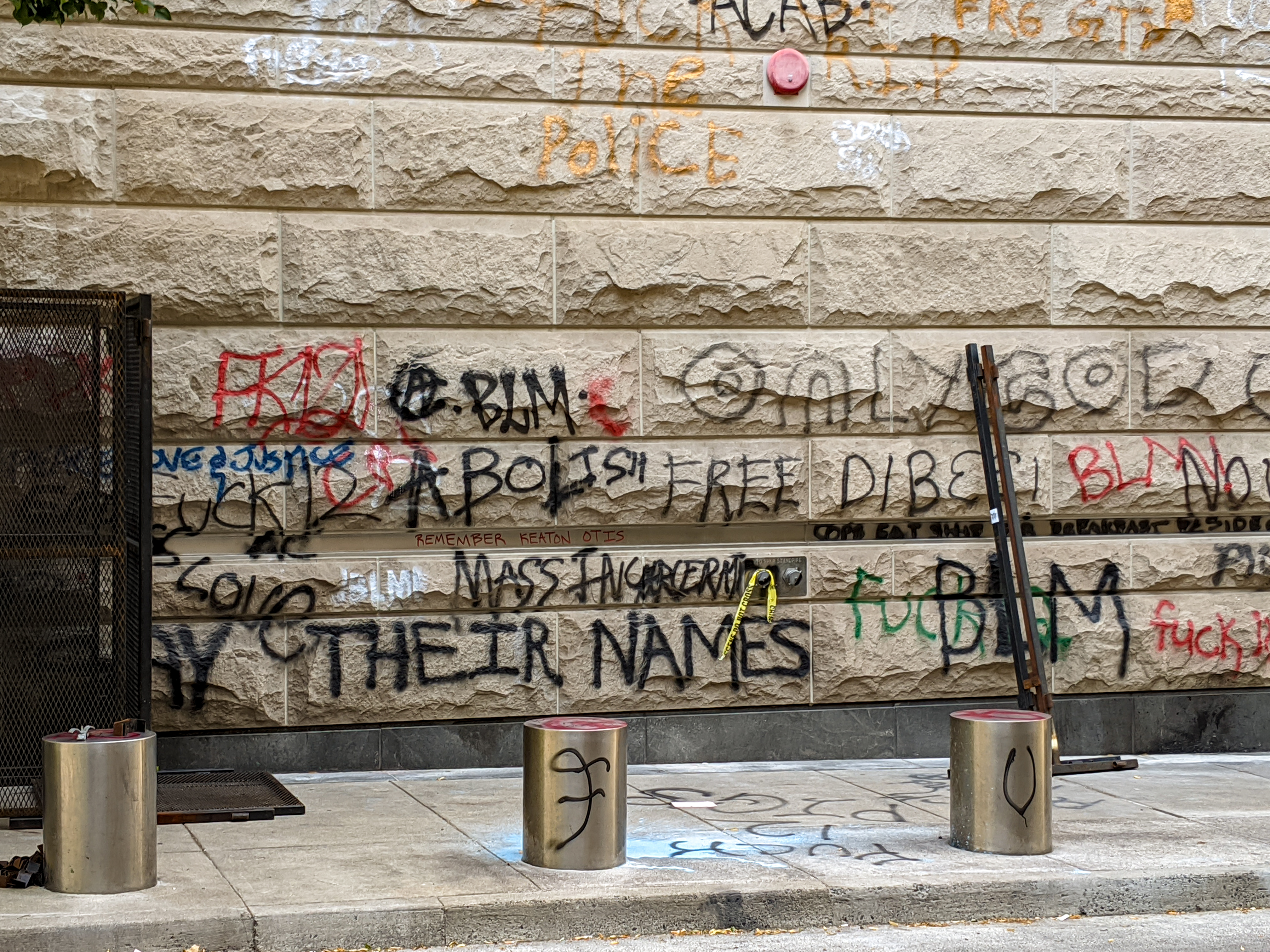 Anti-fascist messaging on the Multnomah County Justice Center during the 2020 George Floyd protests.